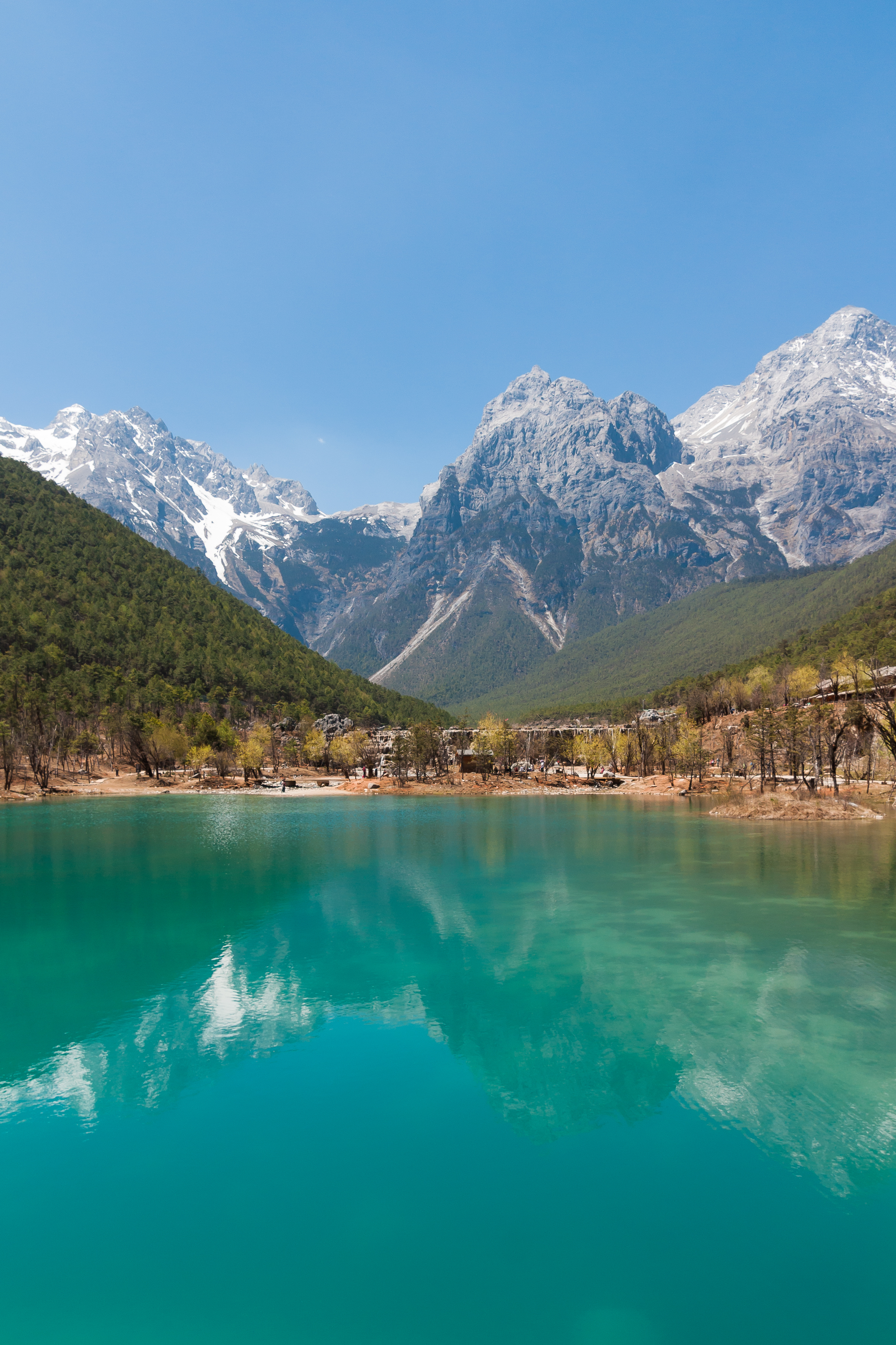 Lijiang, Yunnan, China: Lake with the Jade Dragon Snow Mountain in the background.